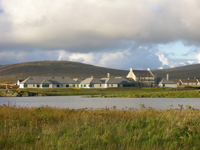 The new South Uist Care Hospital at Daliburgh The new hospital will replace the existing Uist House on the other side of the road.